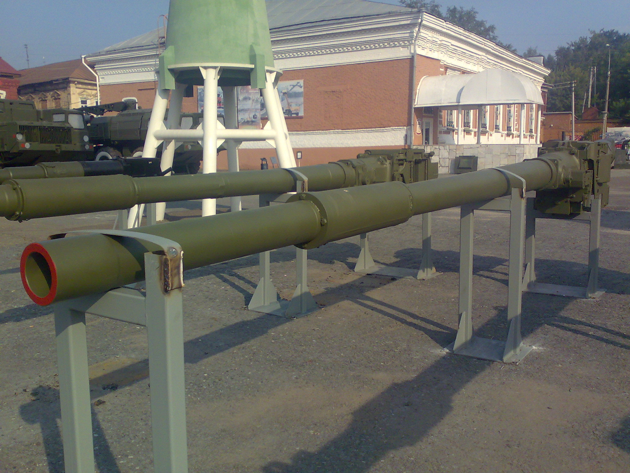 115-mm 2A20 tank gun. Motovilikha Plants museum in Perm. Russia.